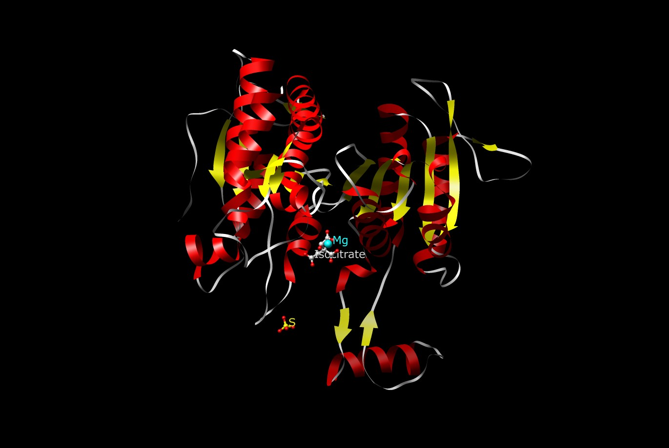 Isocitrate Dehydrogenase of Escherichia coli. From PDB file 1CW7. Created using Chimera.